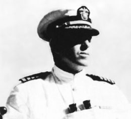 U.S. Navy CAPT Daniel J. Callaghan, promoted to RADM before being killed in the Naval Battle of Guadalcanal, November 13, 1942. Department of Defense (Navy) Photo 80-G-20824